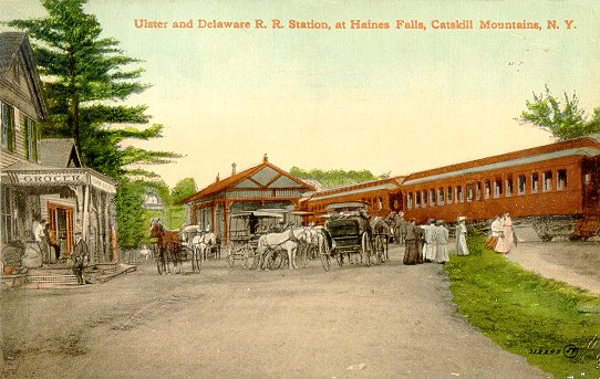 This was the old Haines Falls Station.